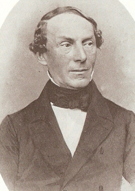 Adolf von Pommer Esche (1804-1871), First President of the prussian Rhine Province